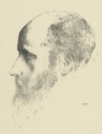 Édouard Vuillard (1868-1940) by Odilon Redon (1840-1916).